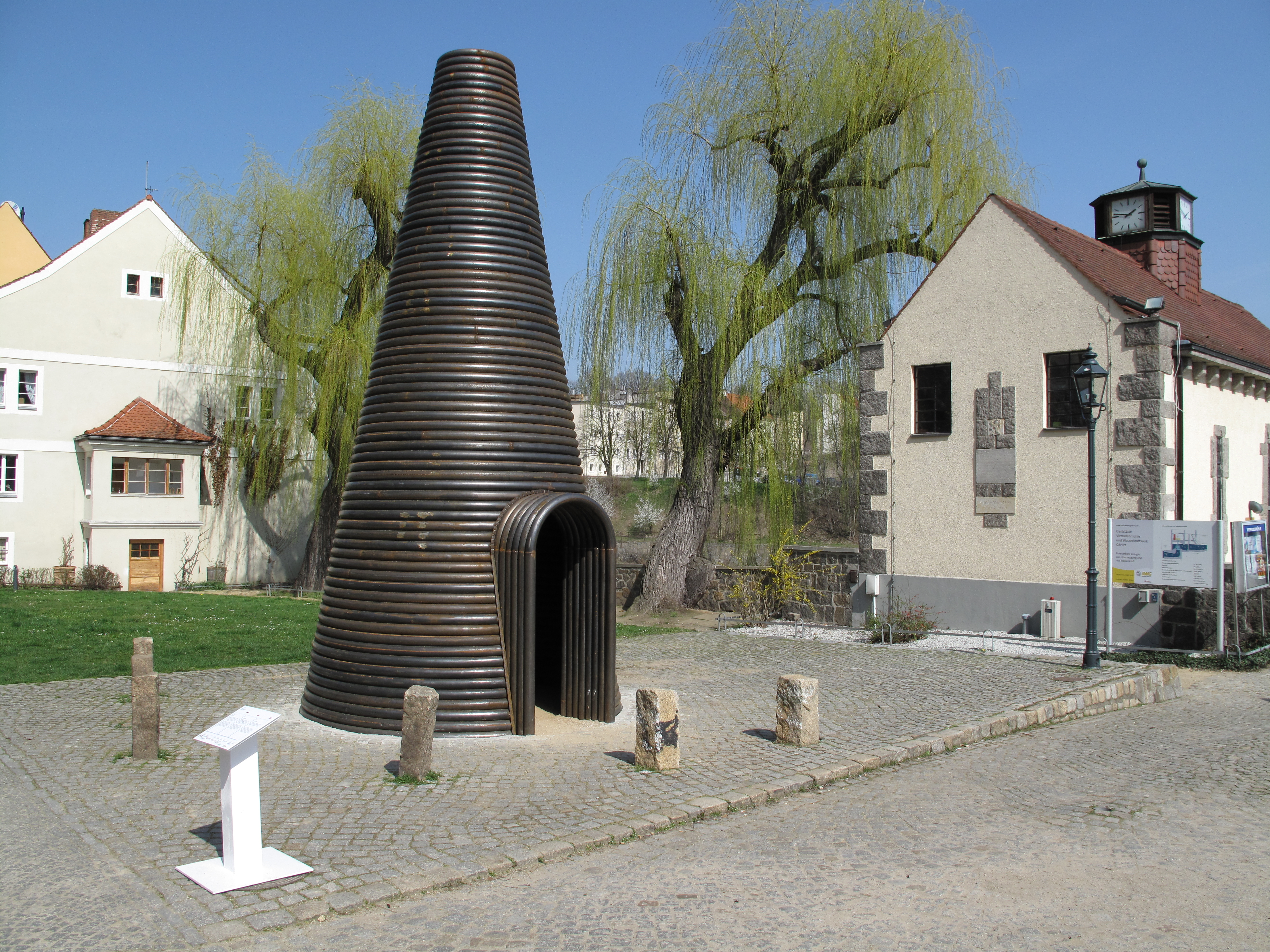 Work of Art "Tower" by Tomasz Domański as part of Görlitzer ART at the Street Hotherstraße in front of the Vierradenmühle (former water driven gristmill with four water wheels, today turbine house with restaurant) in Görlitz)